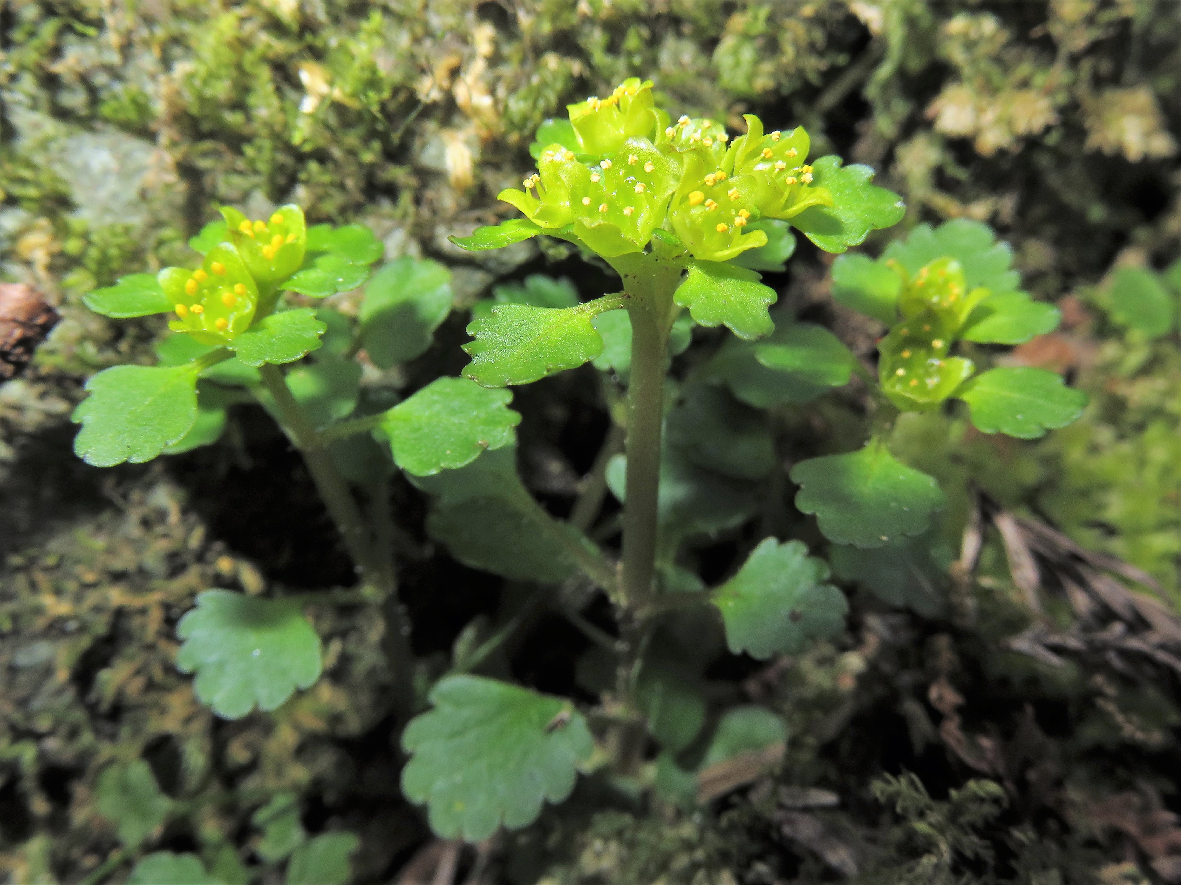 Chrysosplenium maximowiczii, Naka-dori area, Fukushima pref., Japan